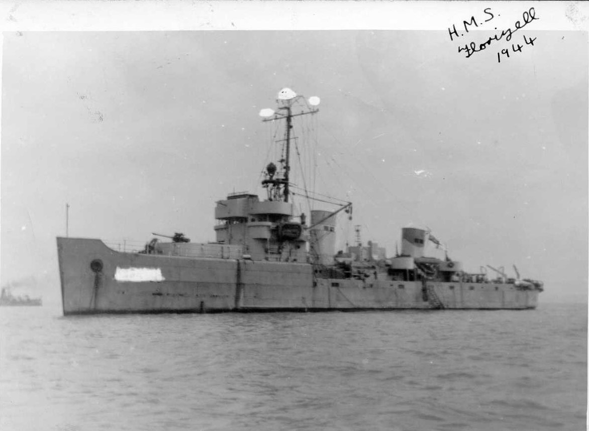 HMS Florizel with hull number (J404) and radar blacked out by sensor.